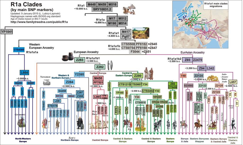 map of the "indo" european/aryan invasions/migrations from their homeland in eastern europe to western europe and asia.